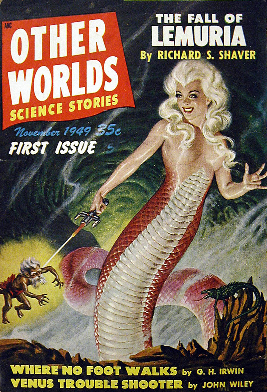 Source: Clark Publishing Web Magazine cover of Other Worlds November 1949 issue. Web Since the magazine was published in the U.S. before 1964, the original copyright lasted 27 years from the end of the year of publication. The copyright holder was free to renew the copyright any time during the year 1977, but they did not do so. Copyright renewals can be searched at this online books listing. The copyright has expired.